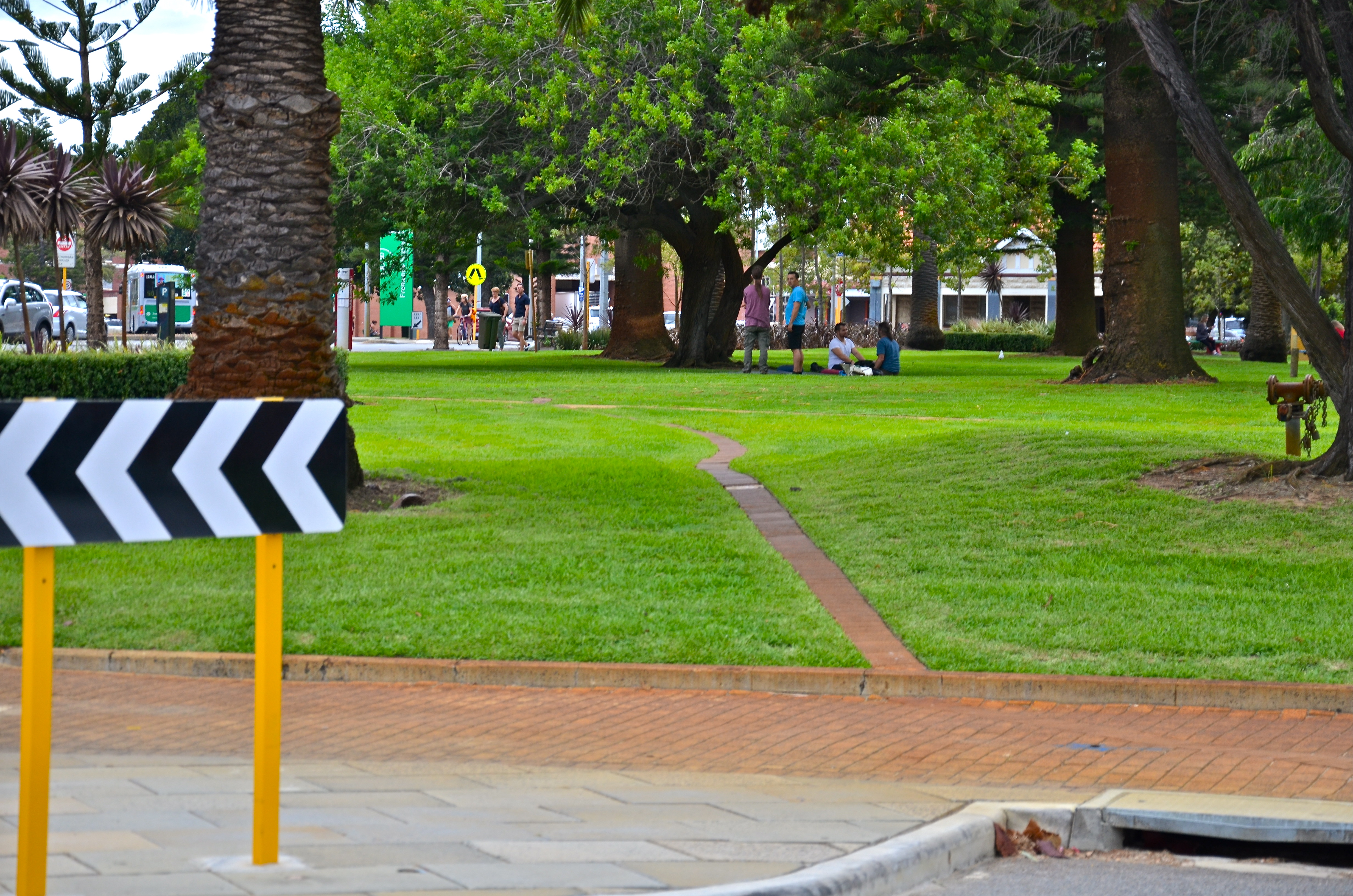 Pioneer Park Fremantle original waterline bricked